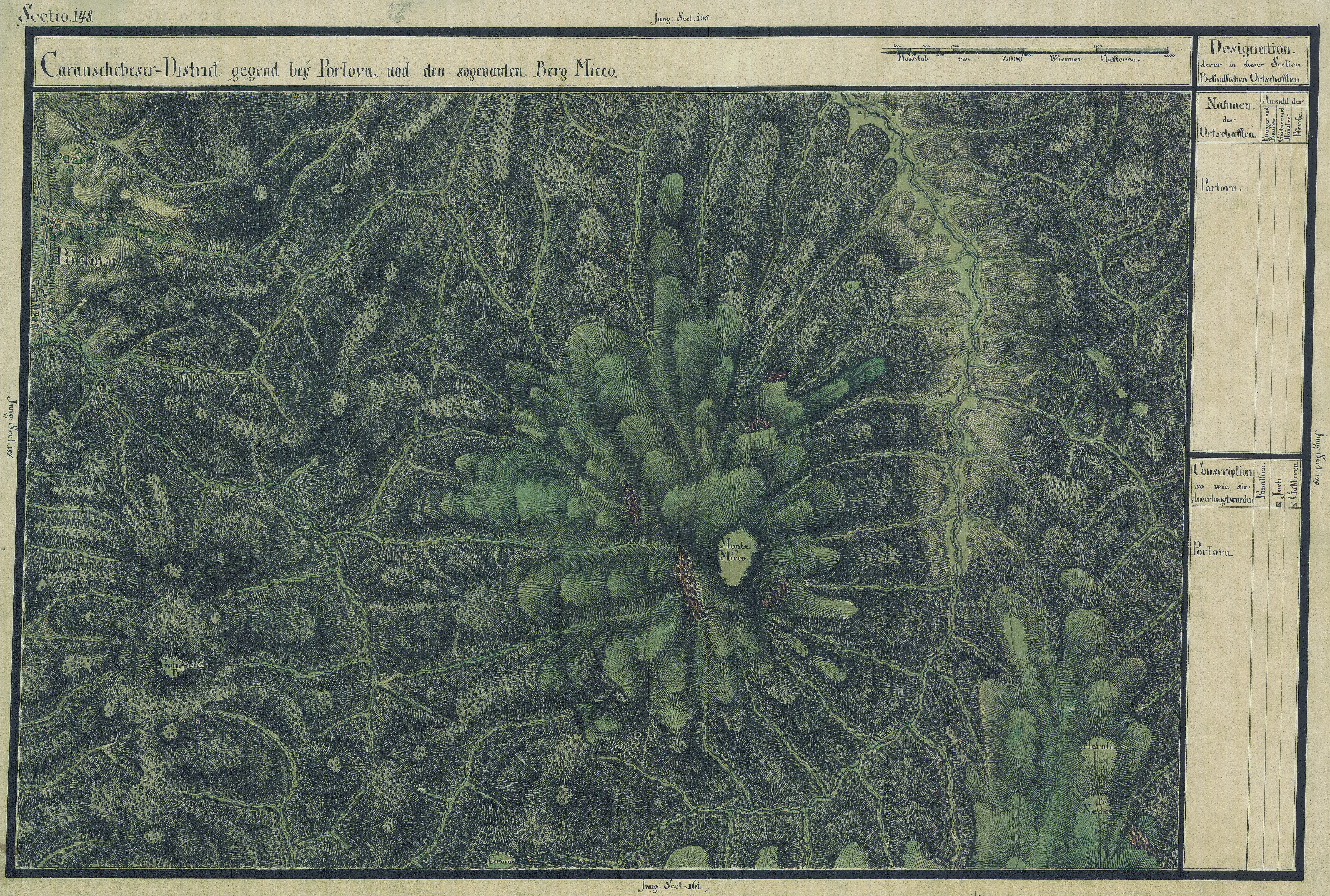 The Banat region in the cadastral maps: Josephinische Landesaufnahme, 1769-72. Josephinische Landaufnahme pg148